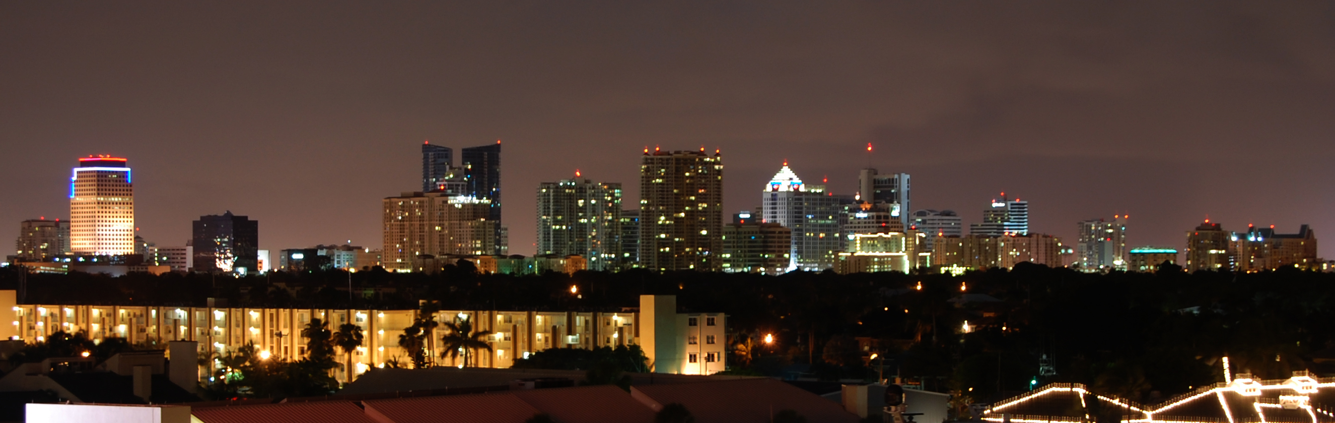 A view of the Fort Lauderdale Skyline at night from the 17th St Causeway.